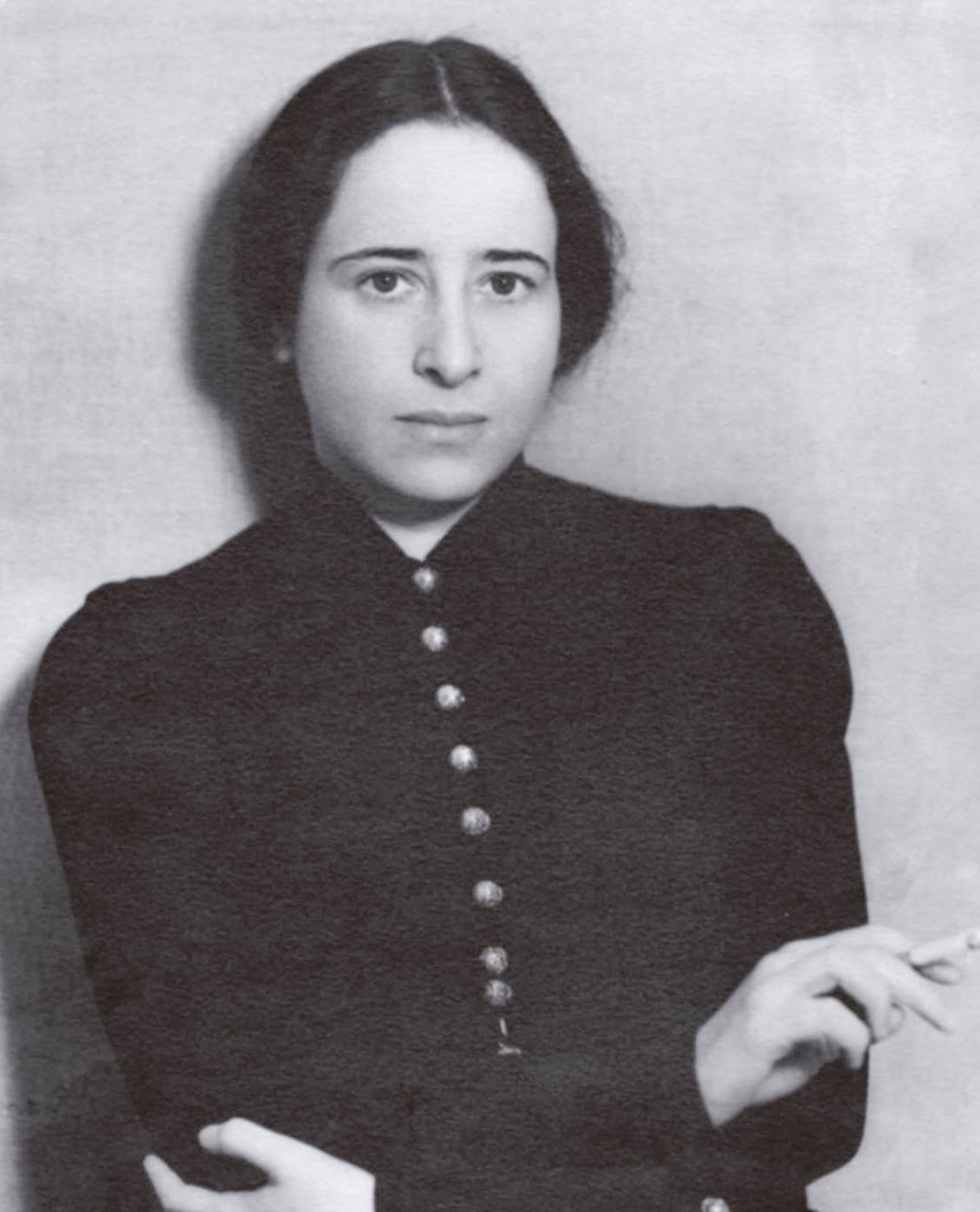 Photograph of Hannah Arendt in 1933